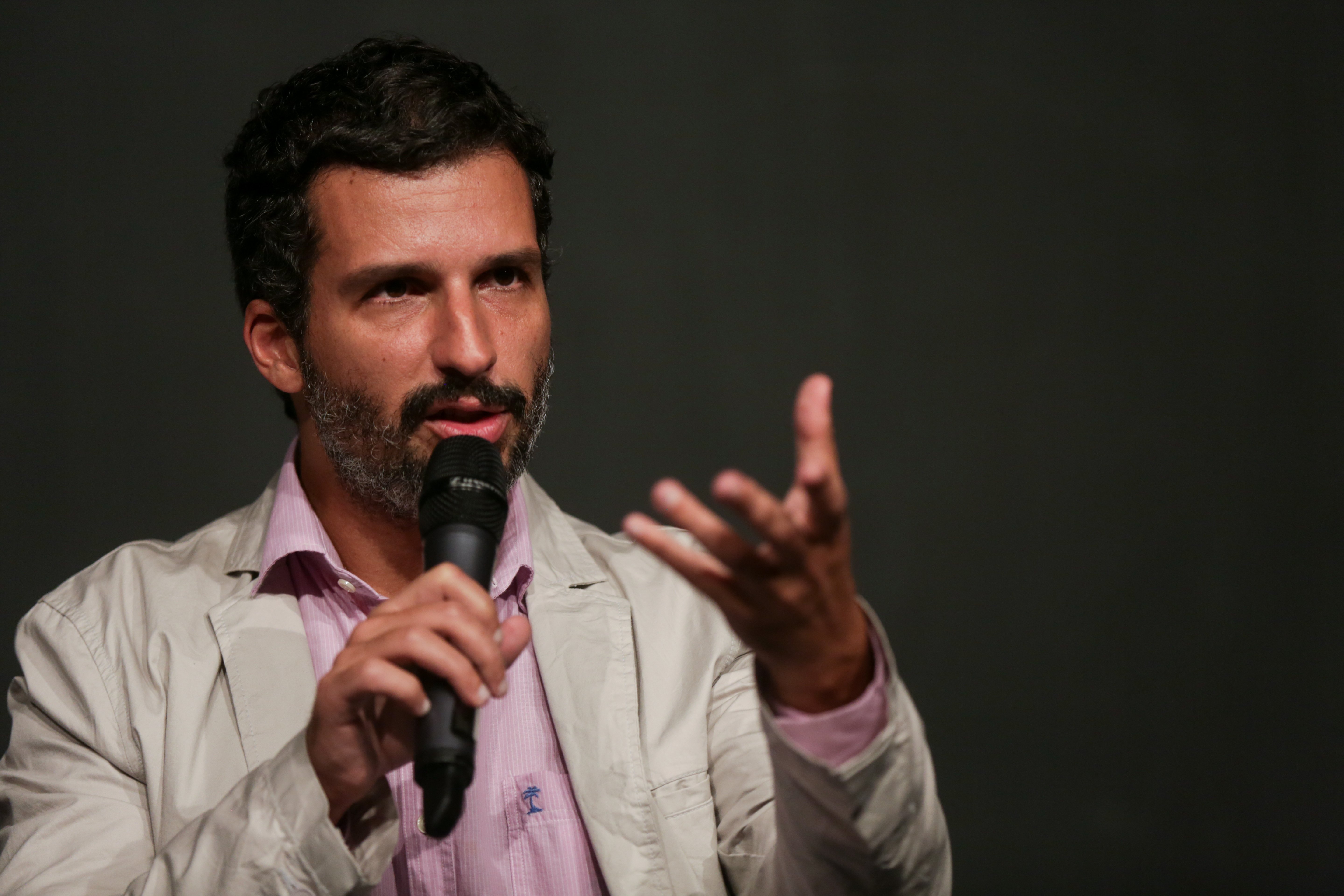 Dialogues with the Theater - Conversation Wheel.Theatrical producers talked extensively with the Minister of Culture, with the president of the National Arts Foundation (Funarte) and with the director of the Funarte Performing Arts Center.